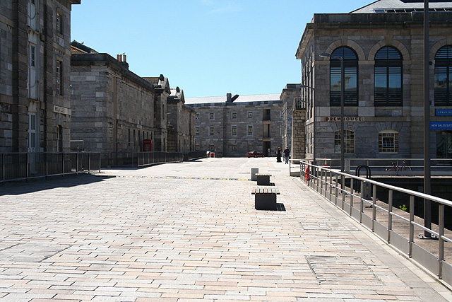 Plymouth: Royal William Victualling Yard At Stonehouse. Looking west-south-west with the yard’s dock on the right. The Brewhouse – the building beyond – now contains a cafe on the ground floor. The complex was designed by Sir John Rennie and constructed between 1826 and 1835. The Navy last used the yard in 1992